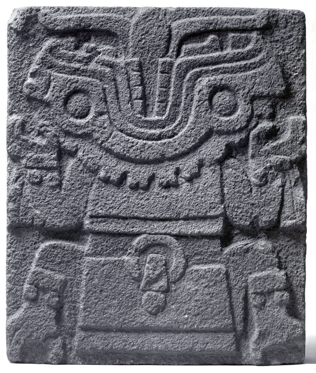 Tlatlecuhtli carving in the Met collection